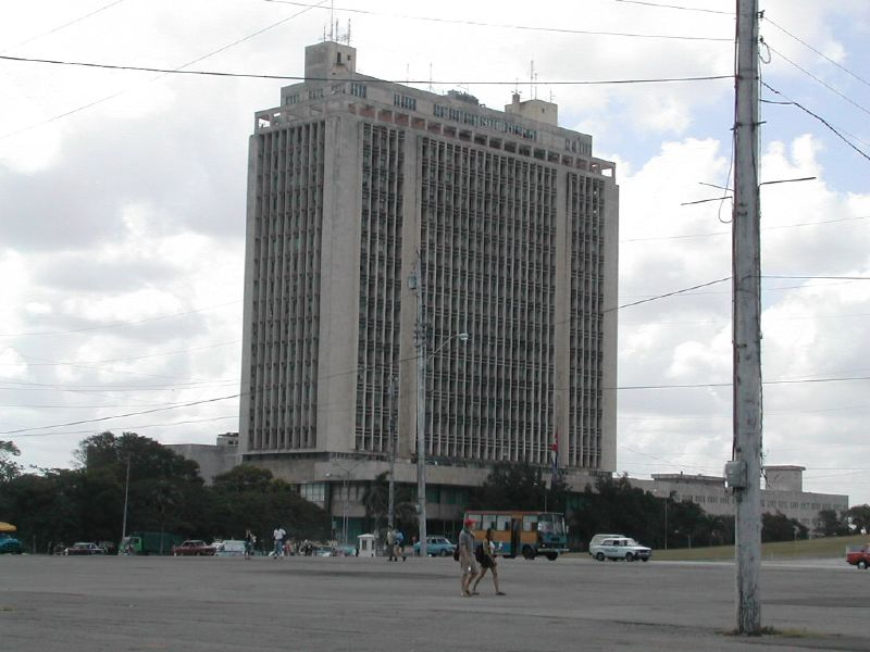 Cuban Ministry of Defence building